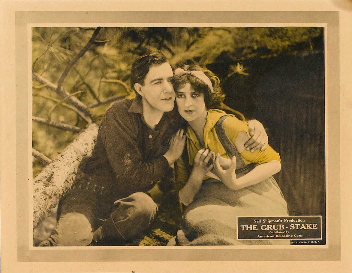 Lobby card for the American adventure film The Grub-Stake (1923).